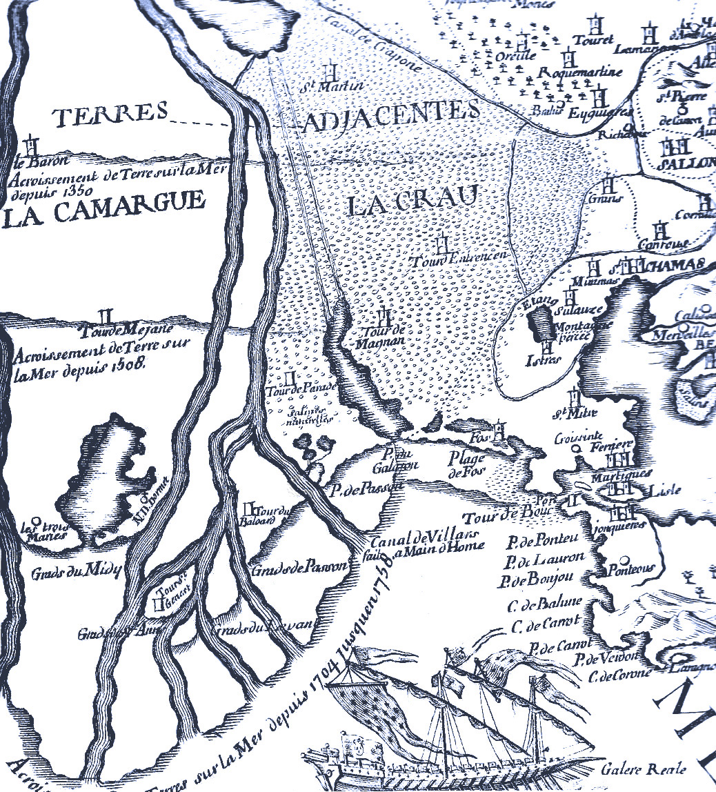 Map of Camargue XVIIIe